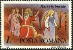 Petre Ispirescu - Fairy tales